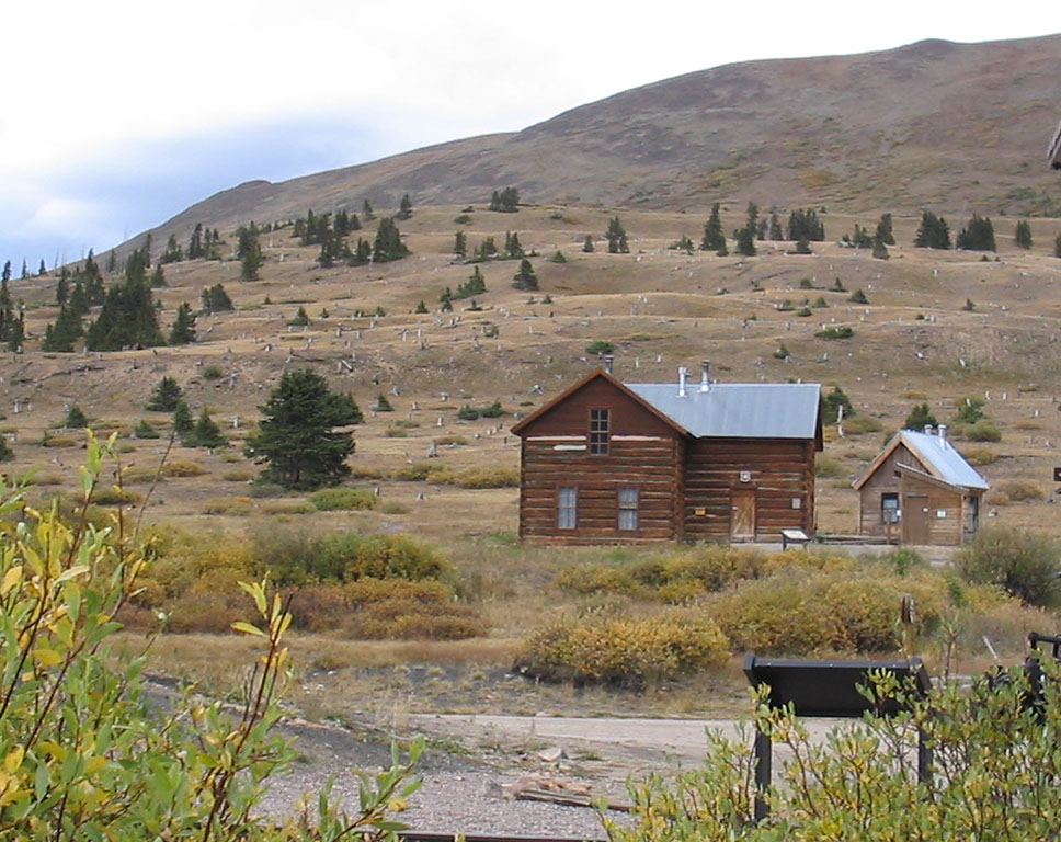 The old track workers' house, DSP&P railroad, Park/Summit counties, CO